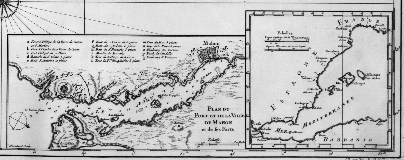 Dual Card Spanish and French coasts with the Balearic Islands and a plan for the Bay of Mahon on Menorca. 1740